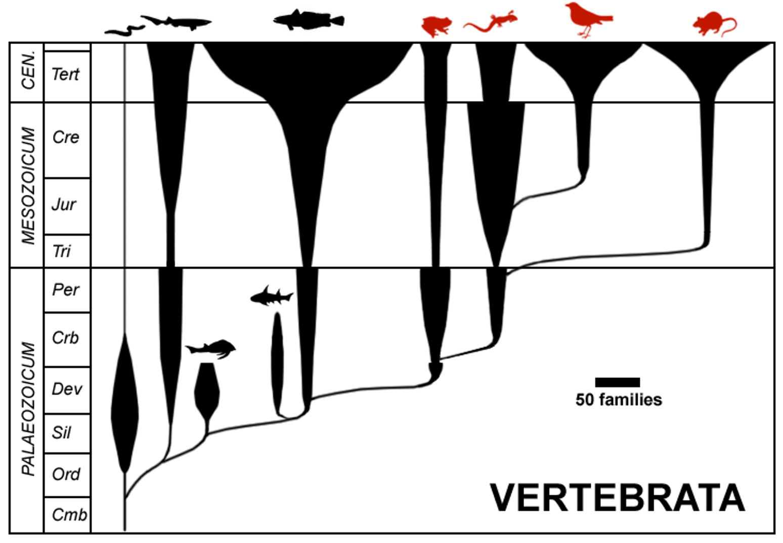 This is a vertebrate phylogeny. The taxa in red contain species which have webbed feet.